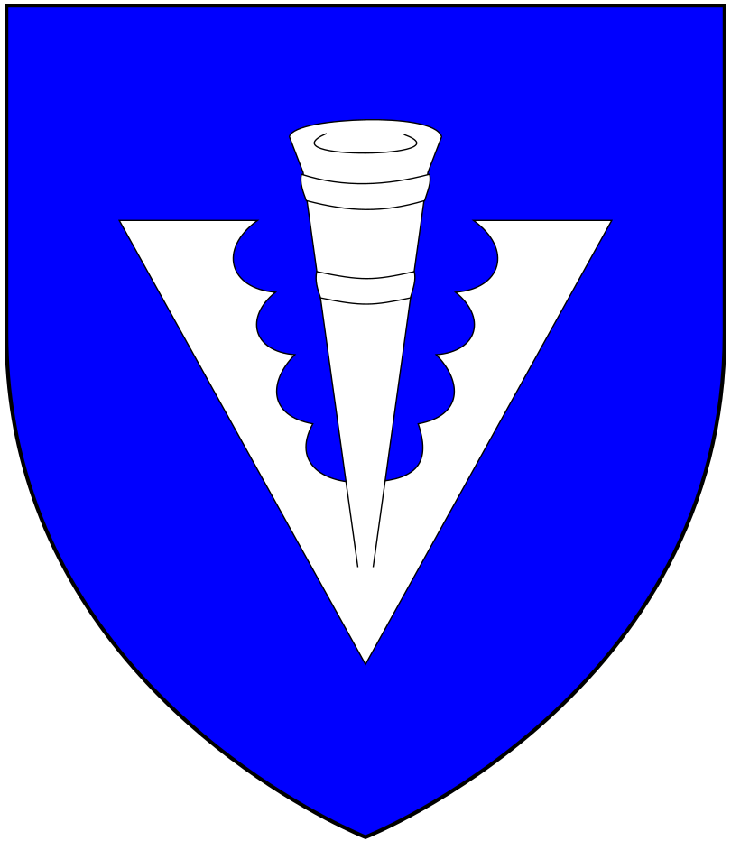 Arms of William Bradbridge (d.1578), Bishop of Exeter: Azure, a pheon argent (Pole, Sir William (d.1635), Collections Towards a Description of the County of Devon, Sir John-William de la Pole (ed.), London, 1791, p.473). As was formerly visible on his tomb in Exeter Cathedral. (Polwhele, Richard, History of Devonshire, Vol.2, London, 1793, p.6)